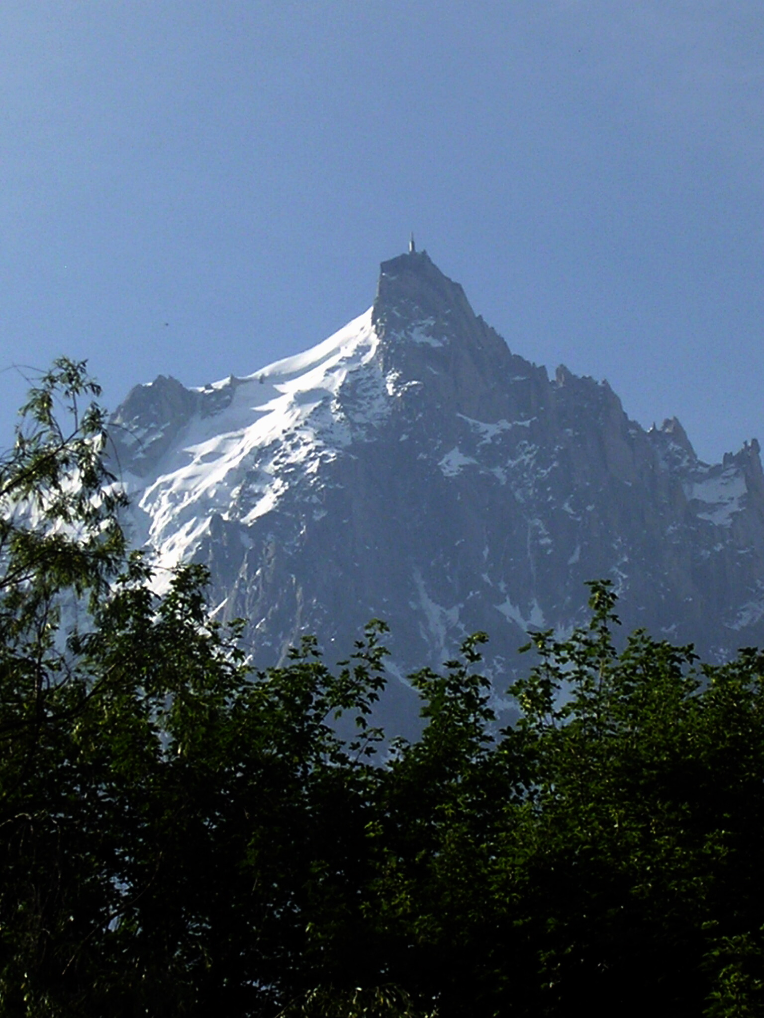 The montain Aiguille du Midi seen from the valley near Chamonix.